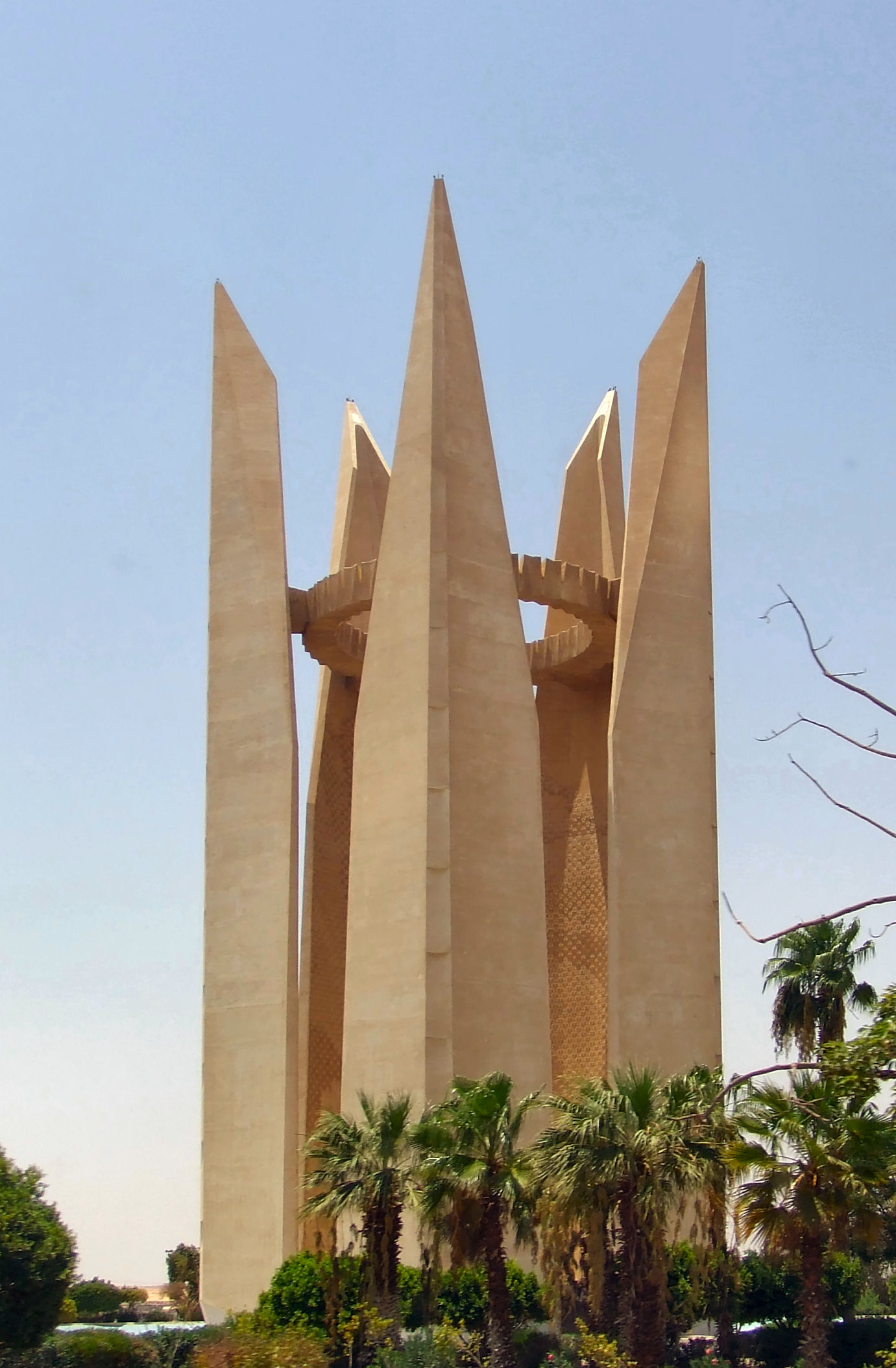 Munument of Aswan High Dam , Egypt.